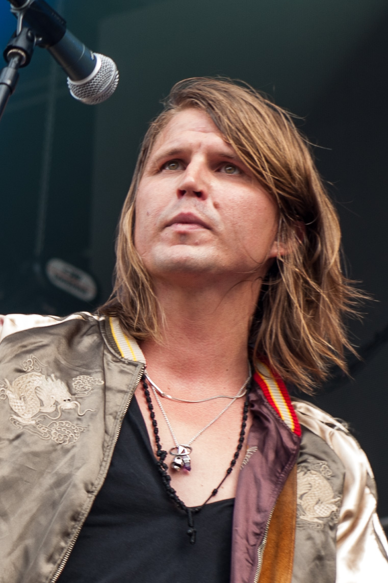 Markus Krunegård at Way Out West festival, Gothenburg, Sweden, 2014